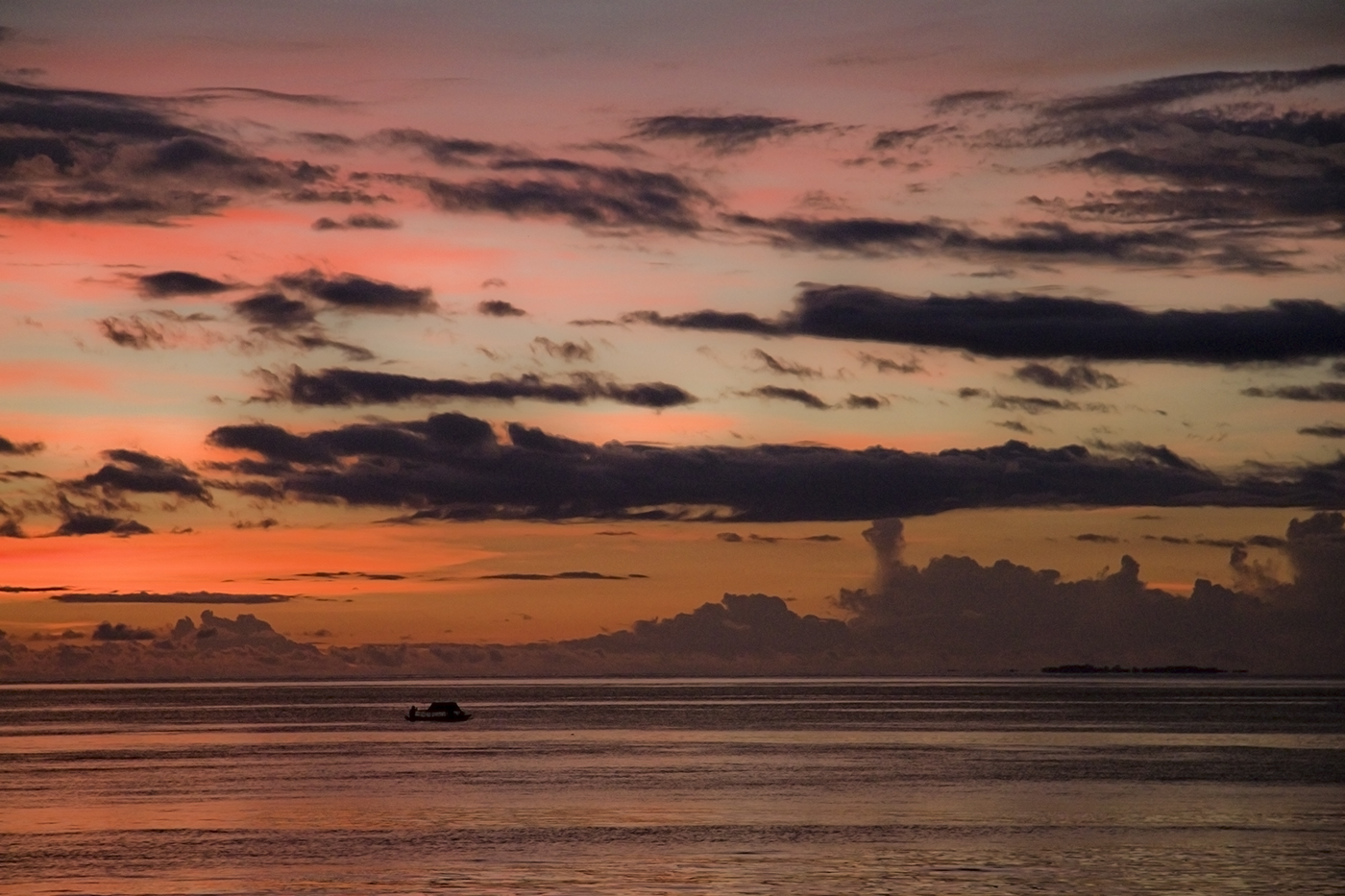 Today's sunset, Raja Ampat, West Papua, Indonesia